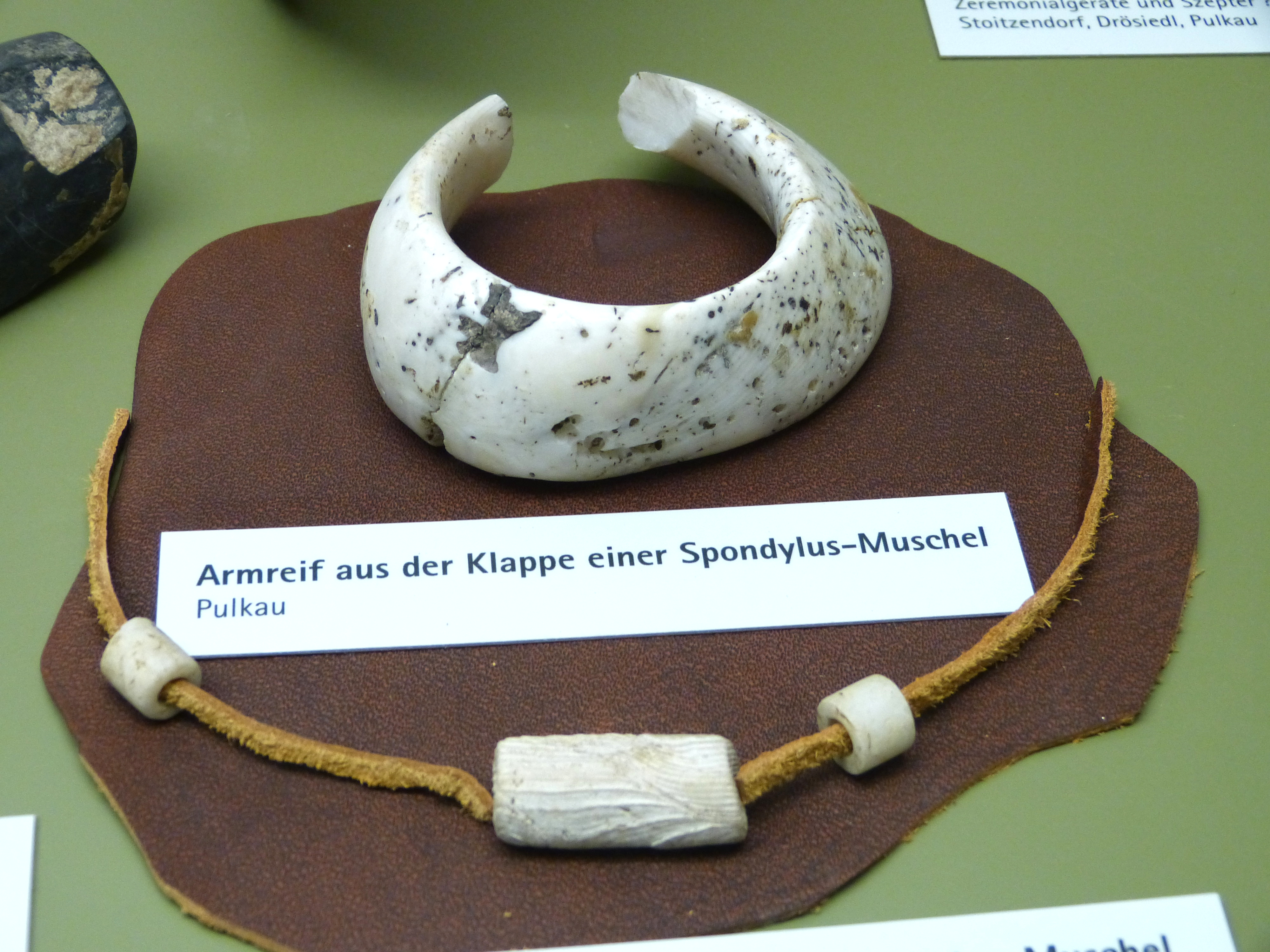 Eggenburg ( Lower Austria ). Krahuletz-Museum: Neolithic bracelet made of spondylus shell, Linear pottery culture, from Pulkau